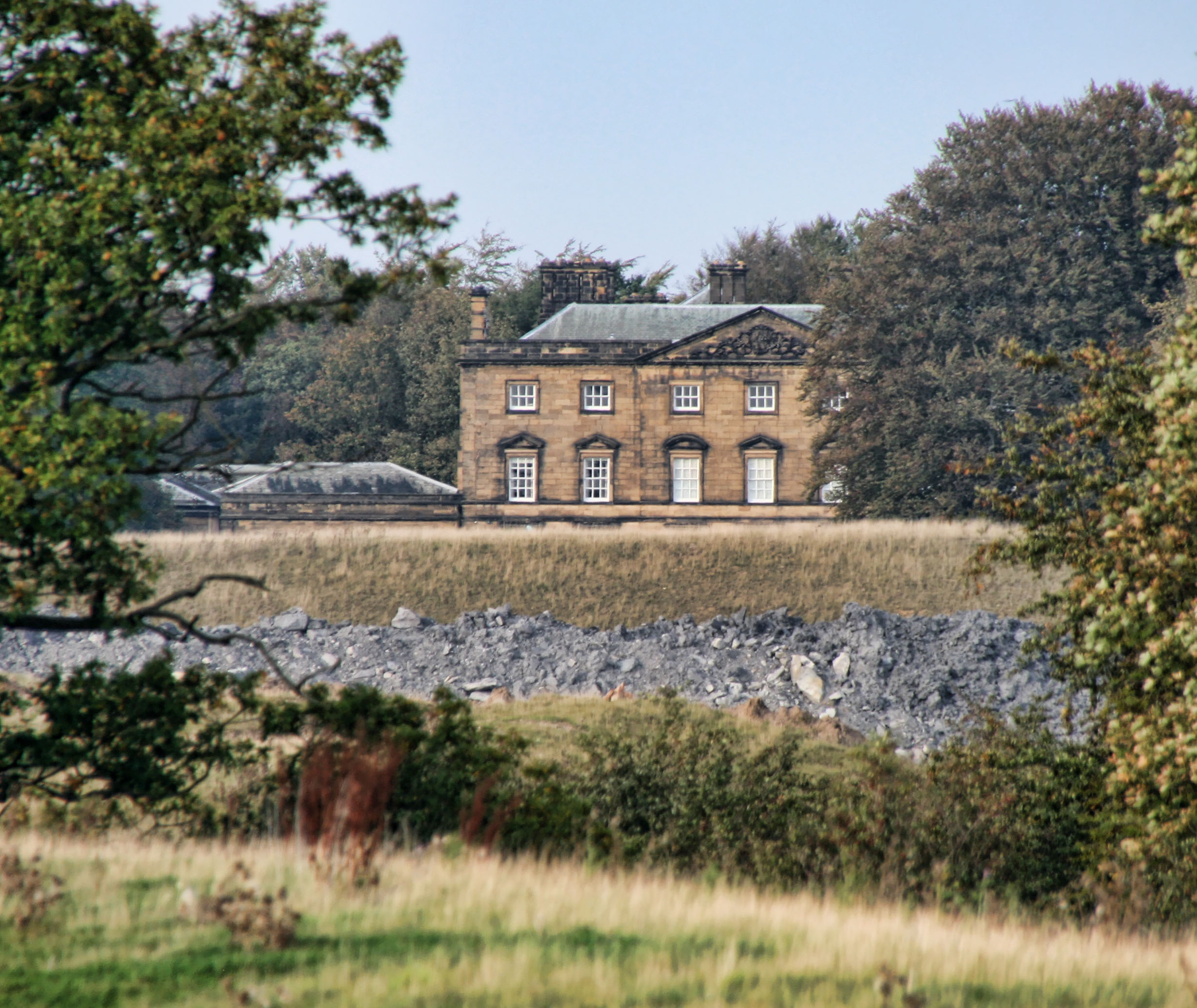 Blagdon Hall